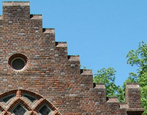 Newport Parish Gables Detail